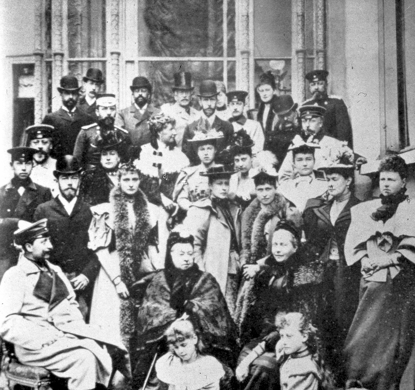 Queen Victoria surrounded by her family. Wellcome Images Keywords: Monarchy; Victoria